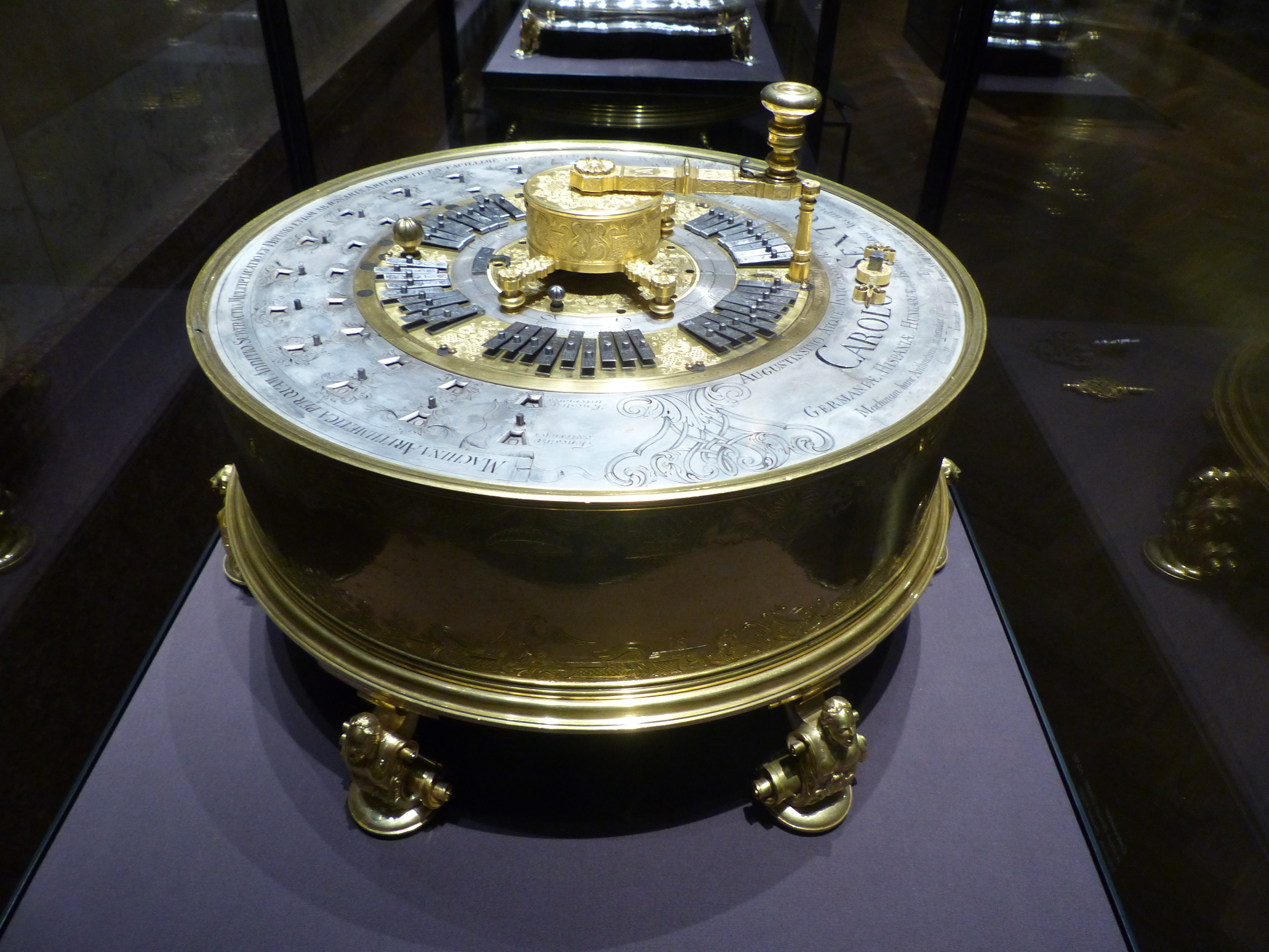 mechanical calculator from Anton Braun (1686-1728), dated 1727; brass gold plated, partially tin coated; side view